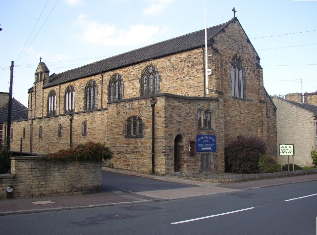 Parish church of St John the Divine, Gooder Lane, Rastrick, West Yorkshire, seen from the south. The church was consecrated in 1915.